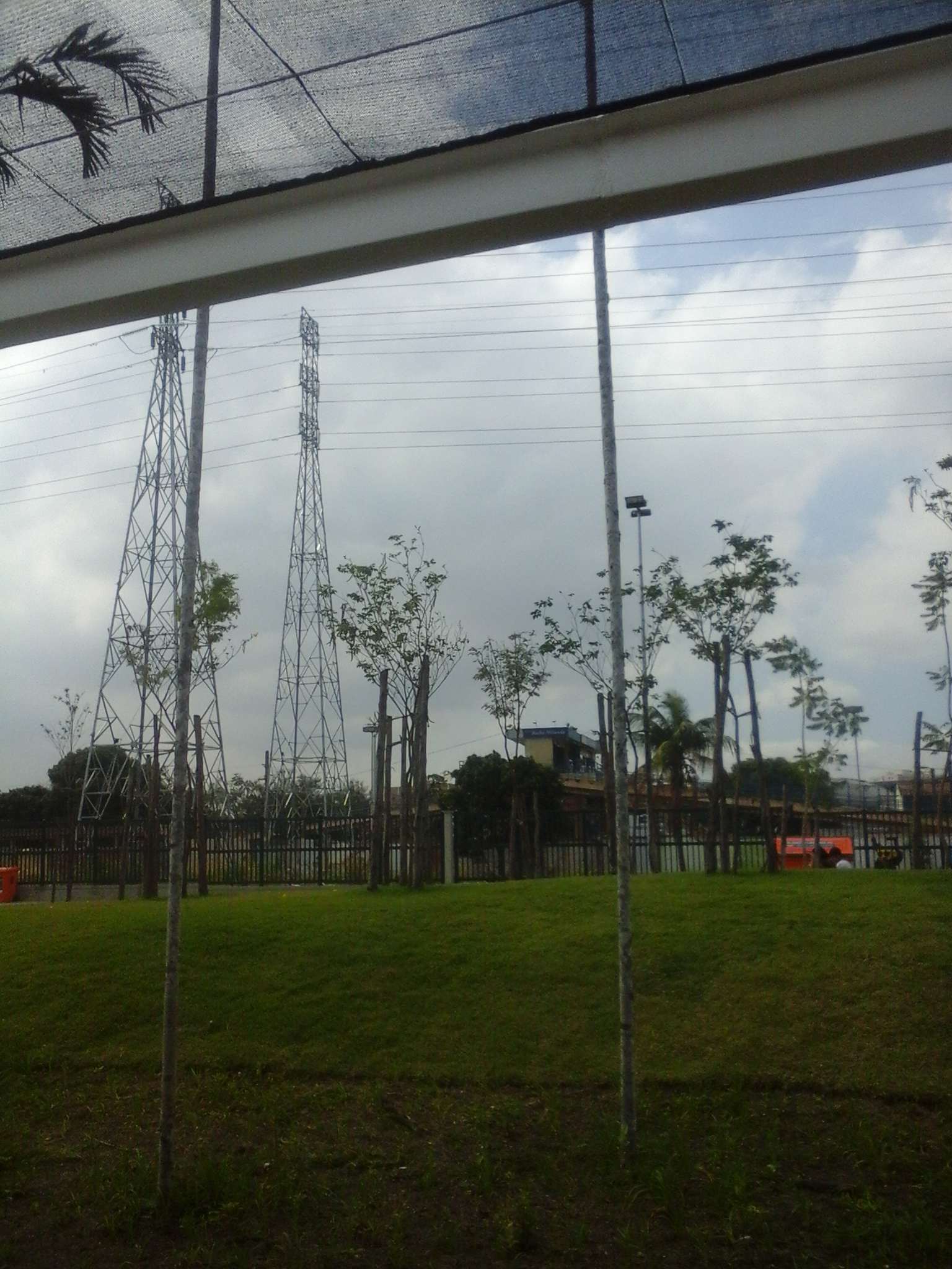 Estação Rocha Miranda vista do Parque Madureira